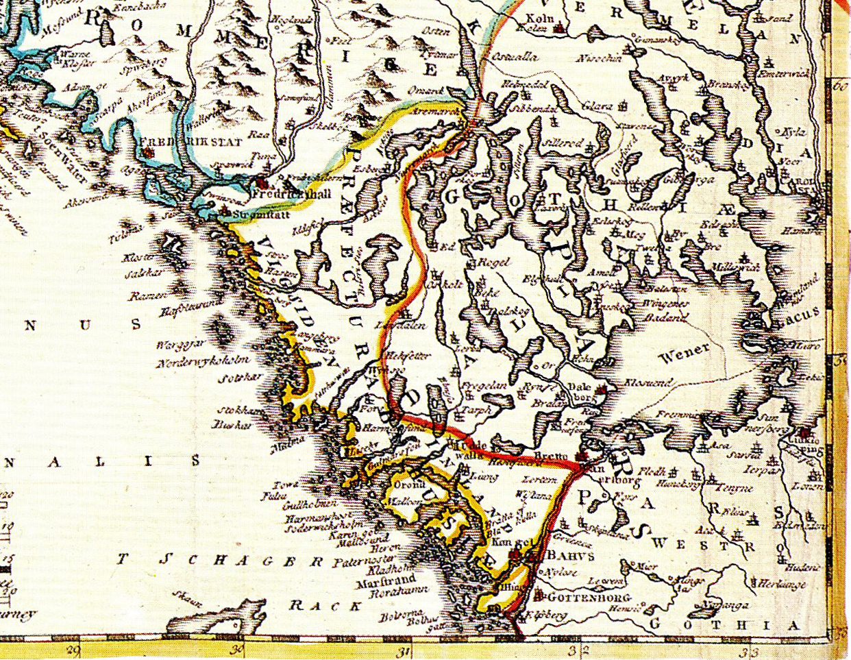 The province of Båhuslen, now Bohuslän in Sweden. Detail of a map of Norway from 1755, showing the historical regions of this province, "Vigsiden" and "Inland".